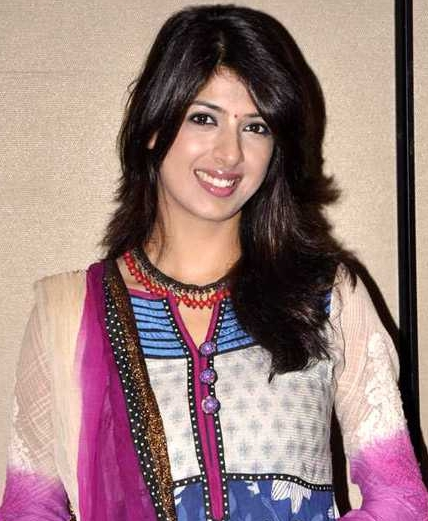 Indian television actress